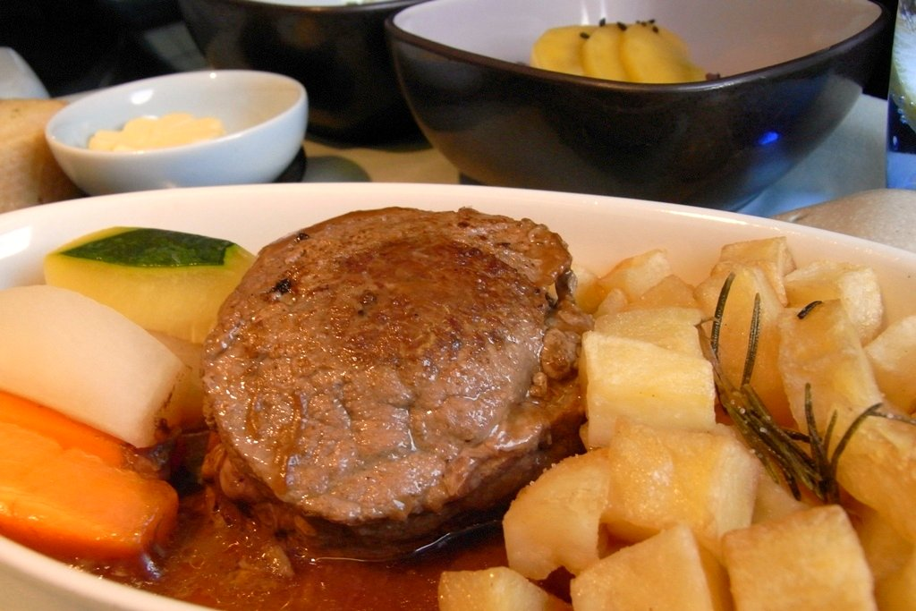 主菜 烤牛柳伴砵酒汁 配迷迭香馬鈴薯及鮮蔬 inflight business class meal CX713 BKK-SIN